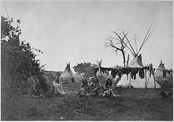 U.S. National Archives & Records Administration. "Arapaho camp with buffalo meat drying near Fort Dodge, Kansas." Photographed by William S. Soule, 1870. American Indian Select List number 61.